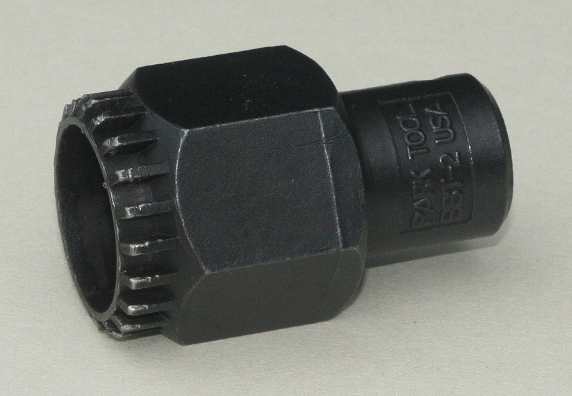 Park Tool BBT-2 Bottom Bracket tool showing scars of battle